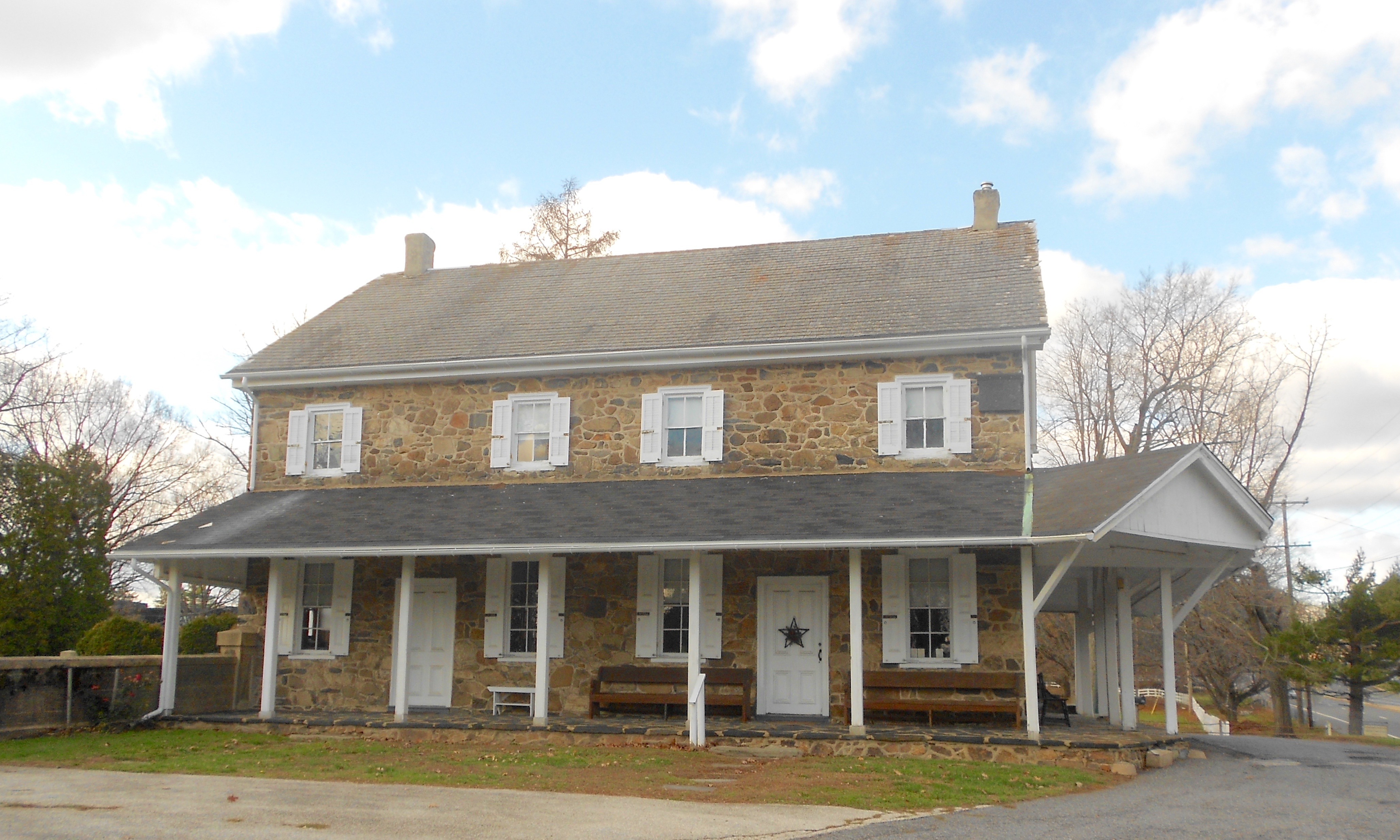 Newtown Square Meeting House on PA 252 in Newtown Square (Newtown Township, Delaware County), Pennsylvania. Built 1711. View from the S